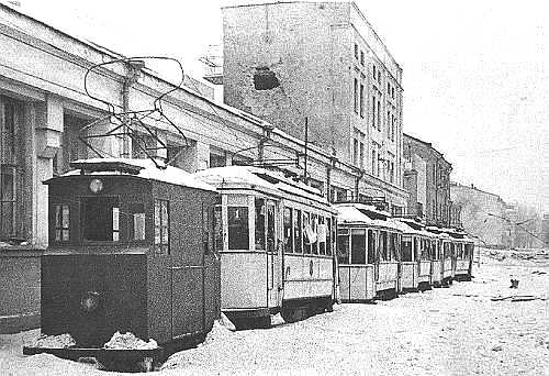 Locomotive build by company's own workshop with AEG traction motors on Vyborg tramway.